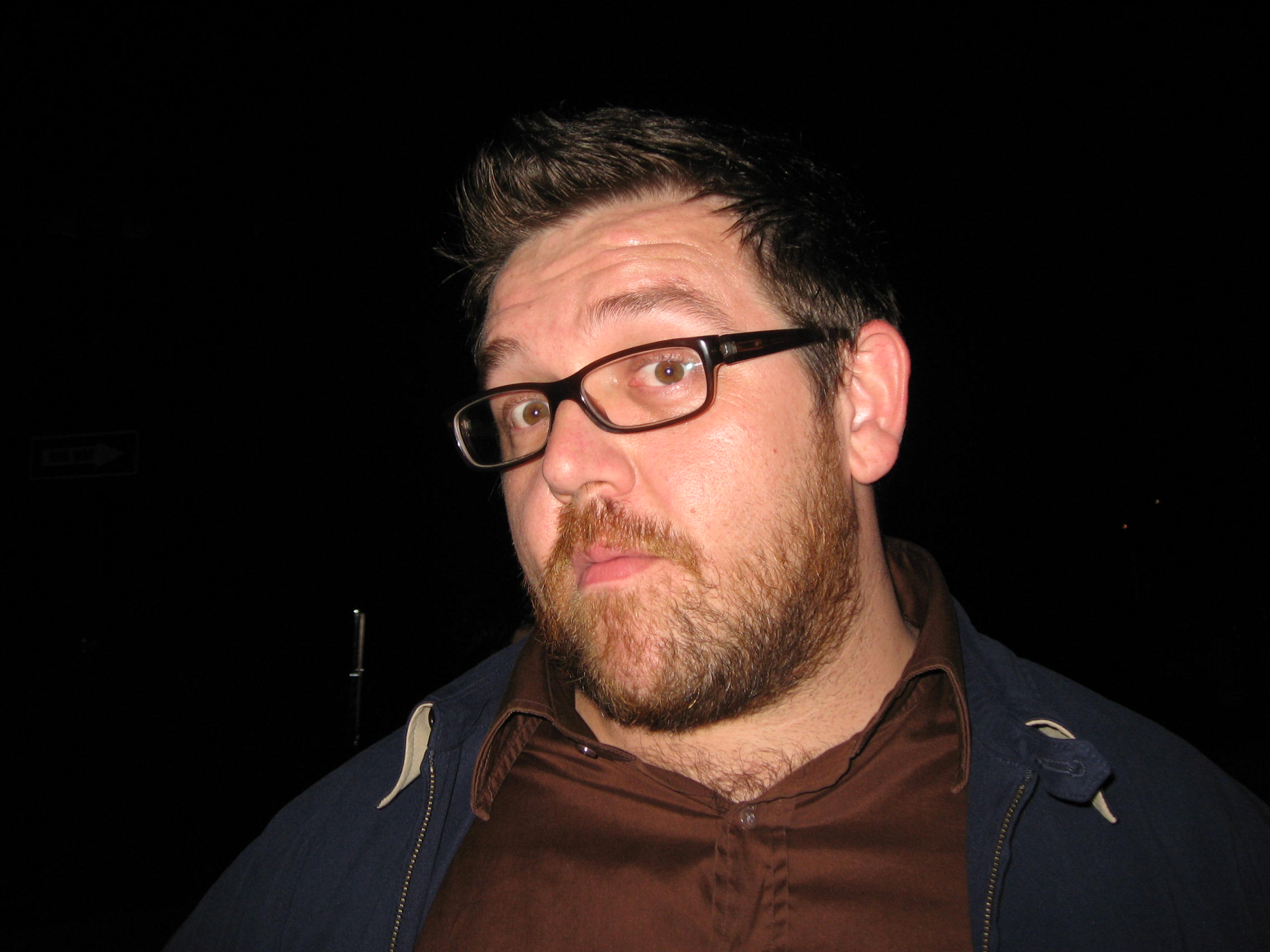 Nick Frost at the Toronto Film Festival screening of Run, Fat Boy, Run in 2007.